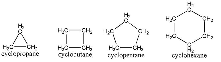 The first four cycloalkanes